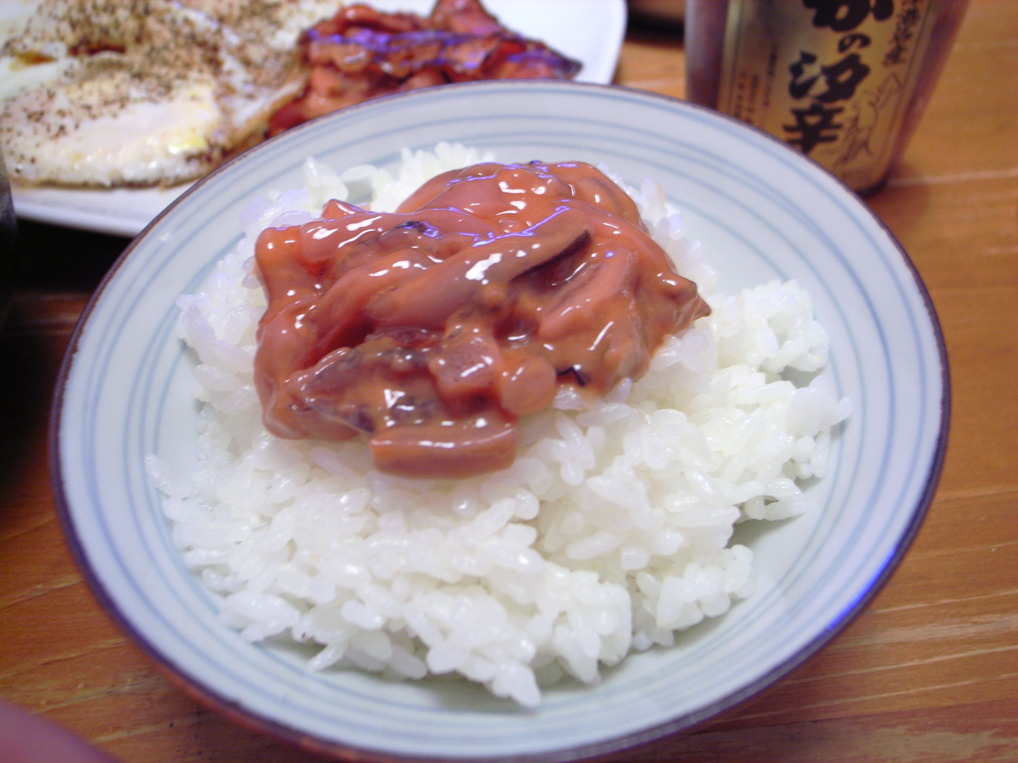 ika no shiokara on the rice.